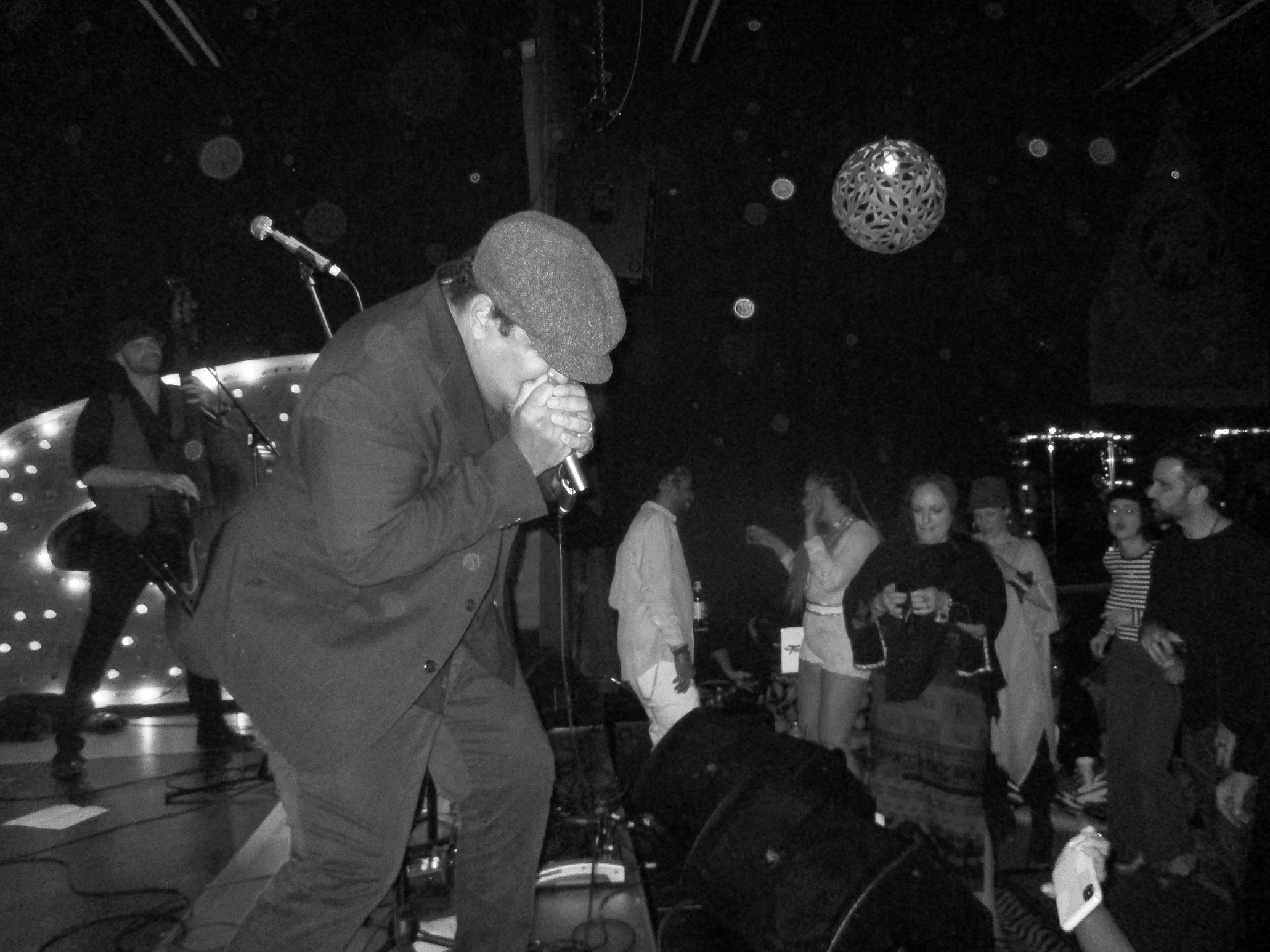 Musician, Chris Pierce performing at Fonogenics in Los Angeles, California Feb. 2019 / Photo: Ithaka Darin Pappas